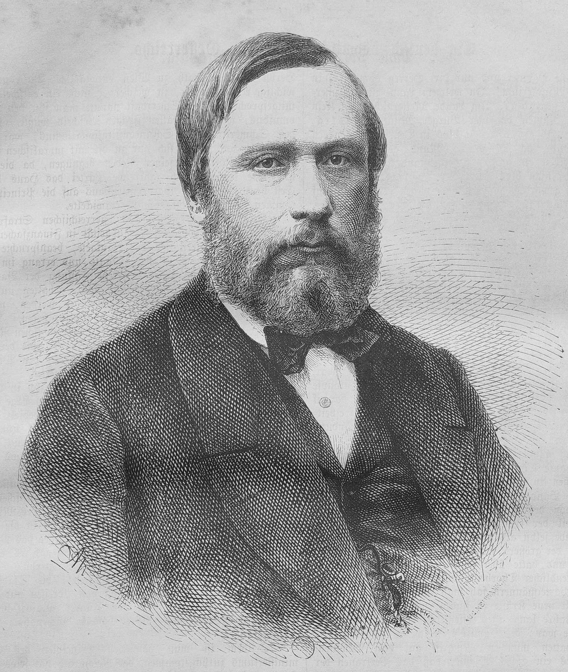 caption: "Eduard Herbst."